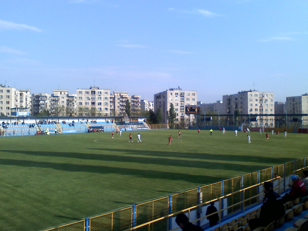 Juventus Bucureşti Stadium during a 24 May 2009 match with AS Filipeştii de Pădure, score 4-0